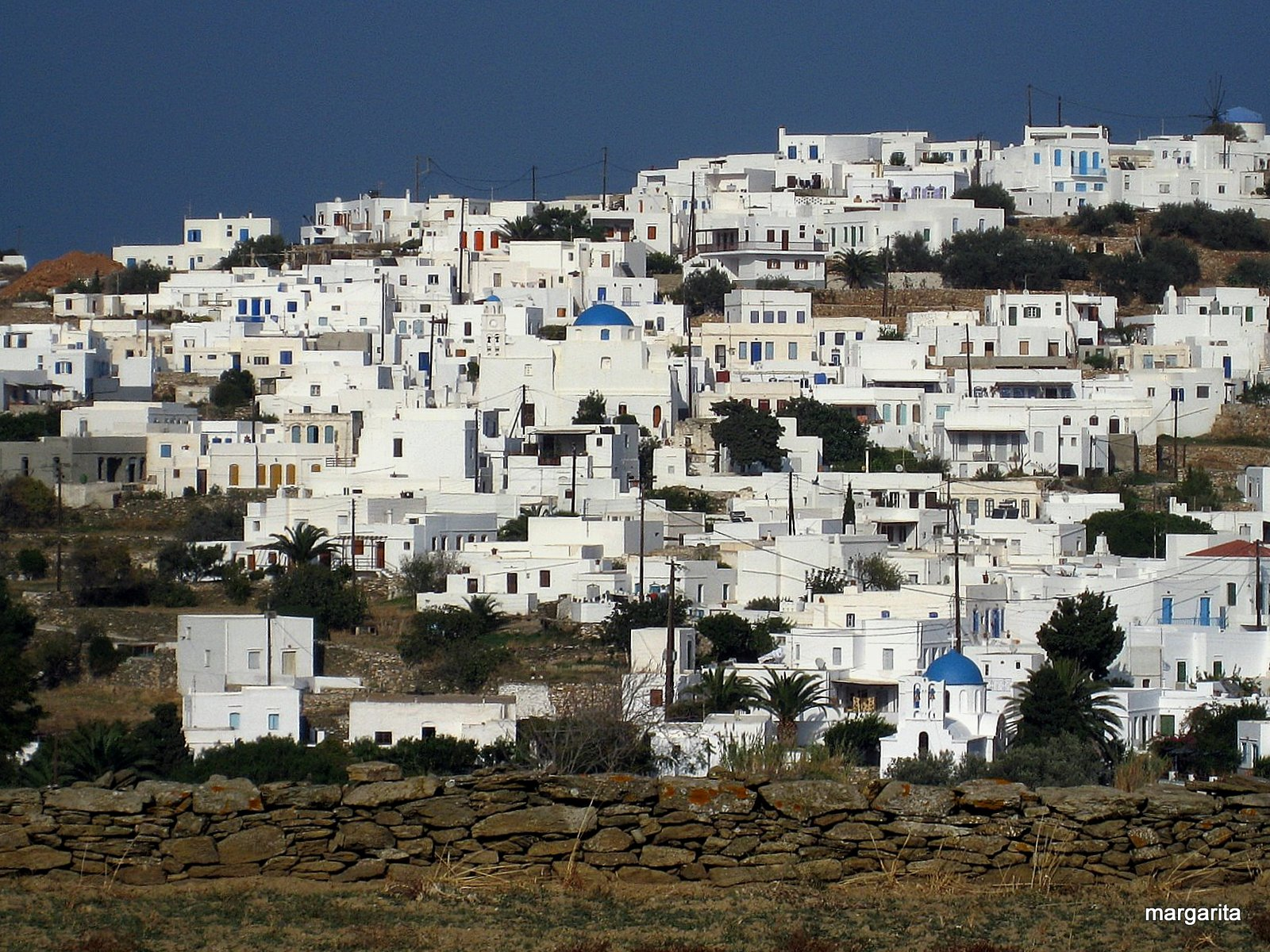 Artemonas-sifnos-western cyclades